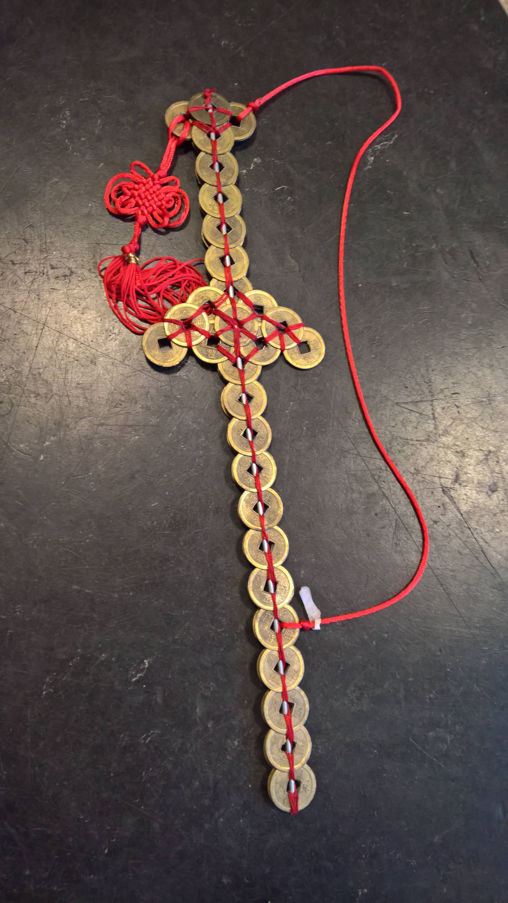 A sword-shaped "good luck 🍀" talisman made from Qing Dynasty-based imitation cash coins.